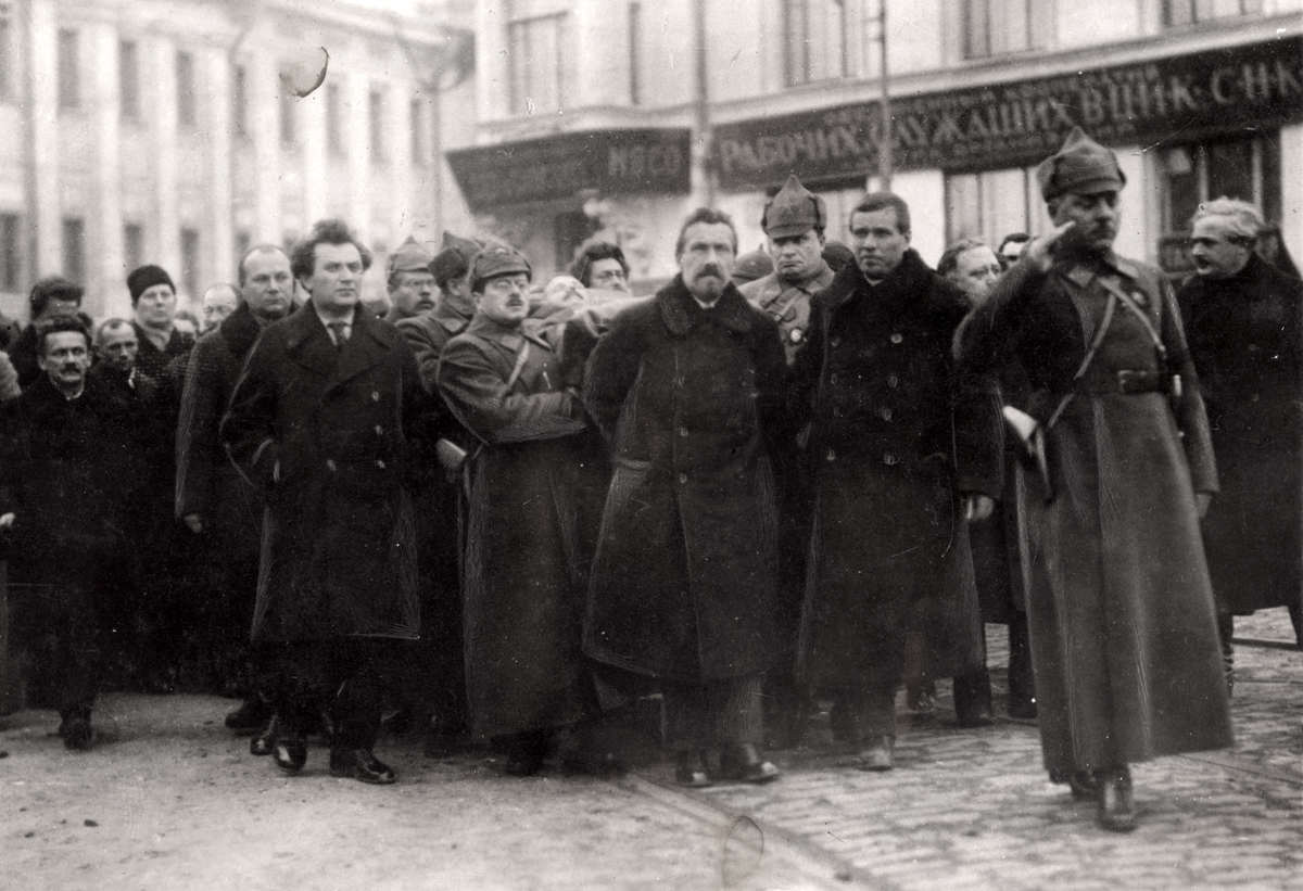 Funeral of the supreme commander of Red Army Mikhail V. Frunze after his death of chloroform poisoning during a surgery on 31 October 1925. Moscow.